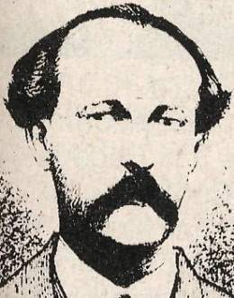 Manuel_Boza_Agramonte